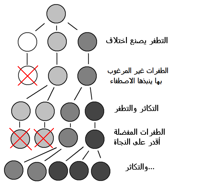 Diagram of mutation and selection in evolution.